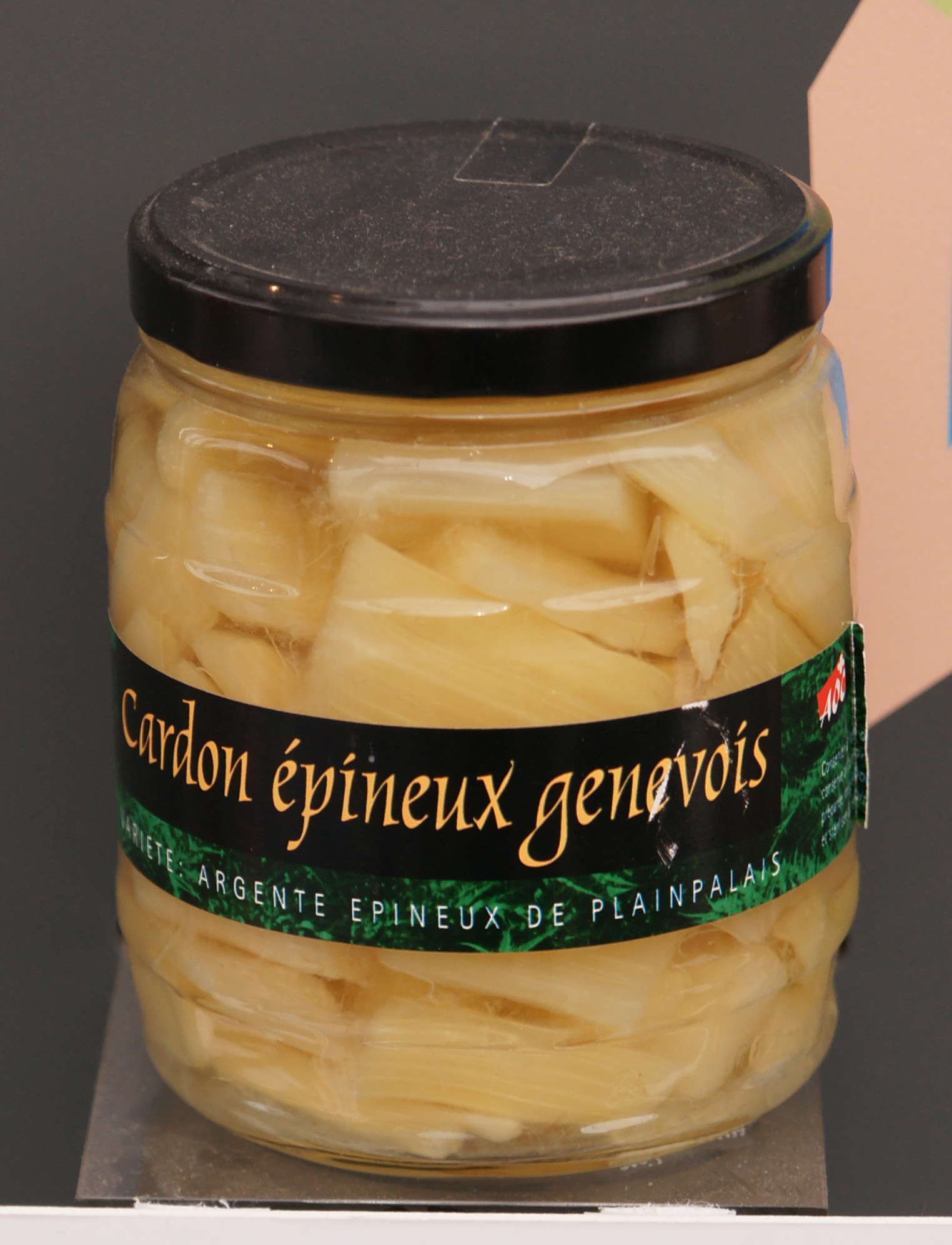 Geneva Cardoon in a glass